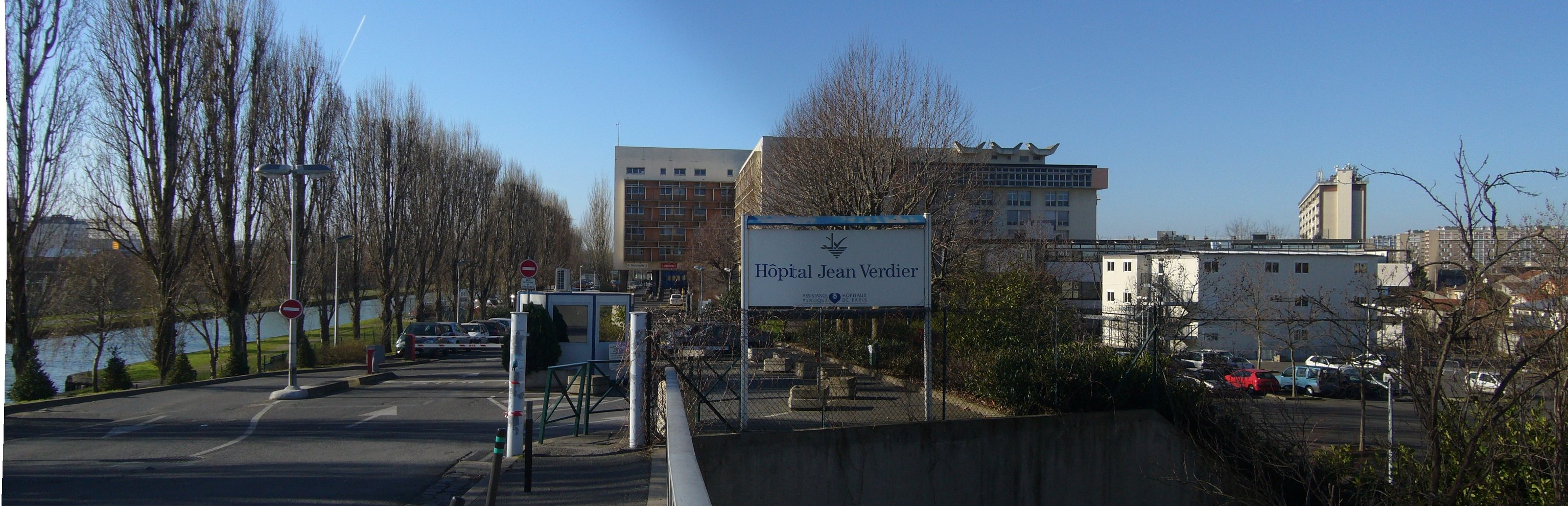 Jean Verdier's hospital in Bondy (France)/ Hôpital Jean-Verdier (Bondy - France)